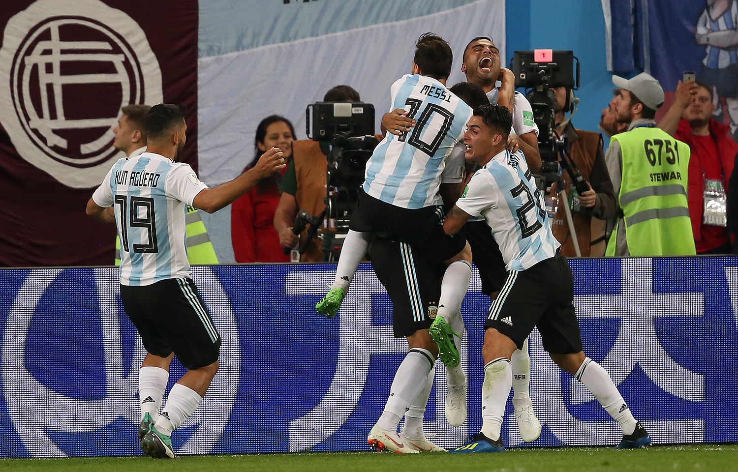 Rojo after scoring the winning goal against Nigeria